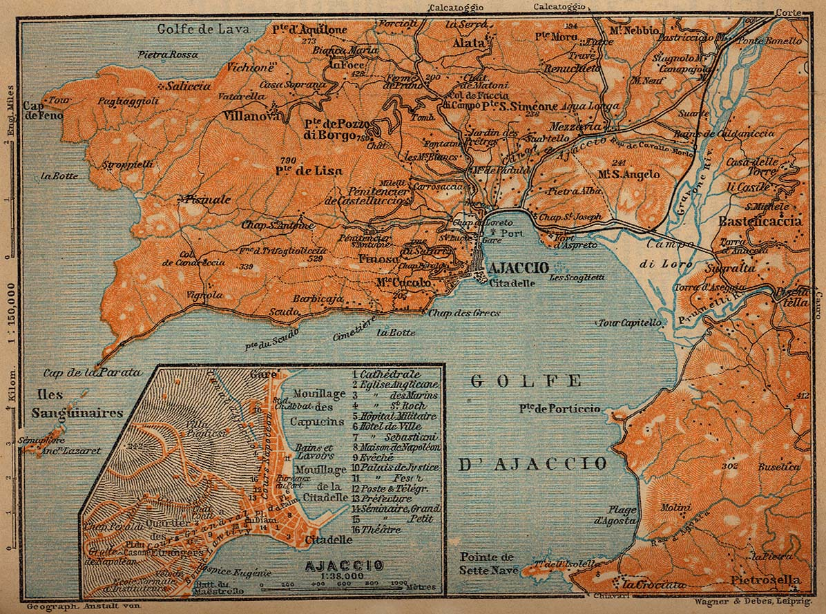 Map of France. 1914. Ajaccio.